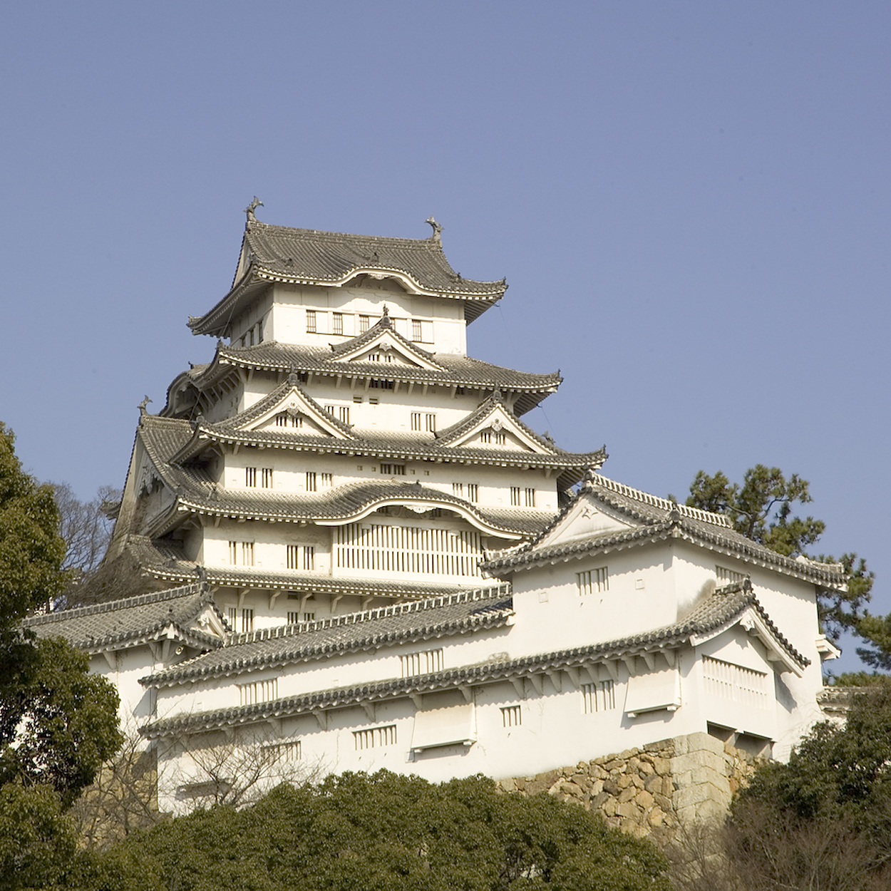 Himeji Castle, Himeji, Hyogo, Japan. I took this photo and contribute my rights in the file to the public domain.